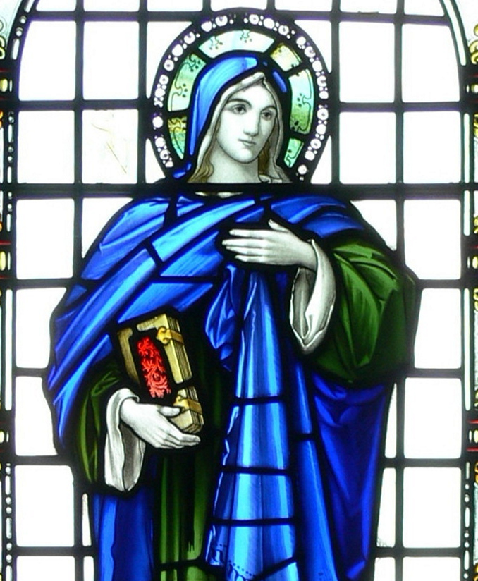 Our Lady and Saint Non's chapel ( St Davids, Wales ). Stained glass window ( 1934 ) showing Saint Non. Straightened and cropped version.